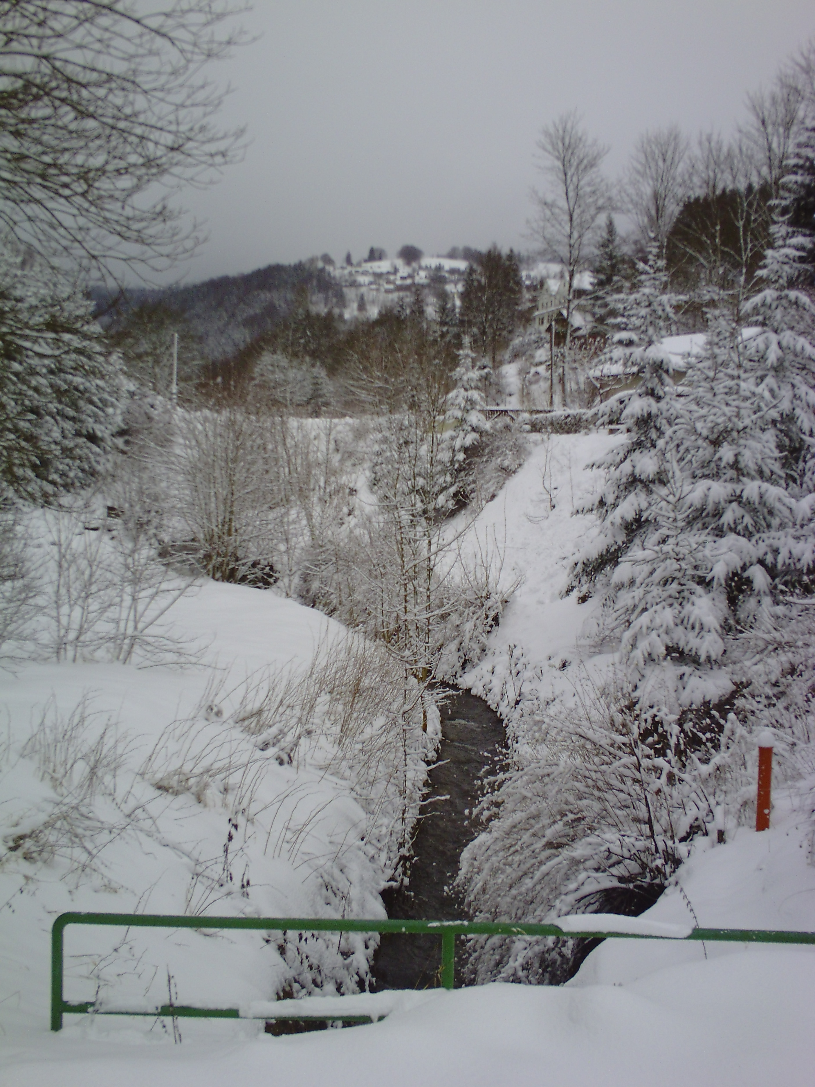 Aschberg is seen from Bärenloch valley bottom in winter; Looking north-east, in the foreground is Steindöbra river, in the near middle ground the former track of the „Gittorrompel“ meter-gauge light rail is visible, in the far middle ground we see the lower offset of Friedenshöhe, and in the background the Aschberg.